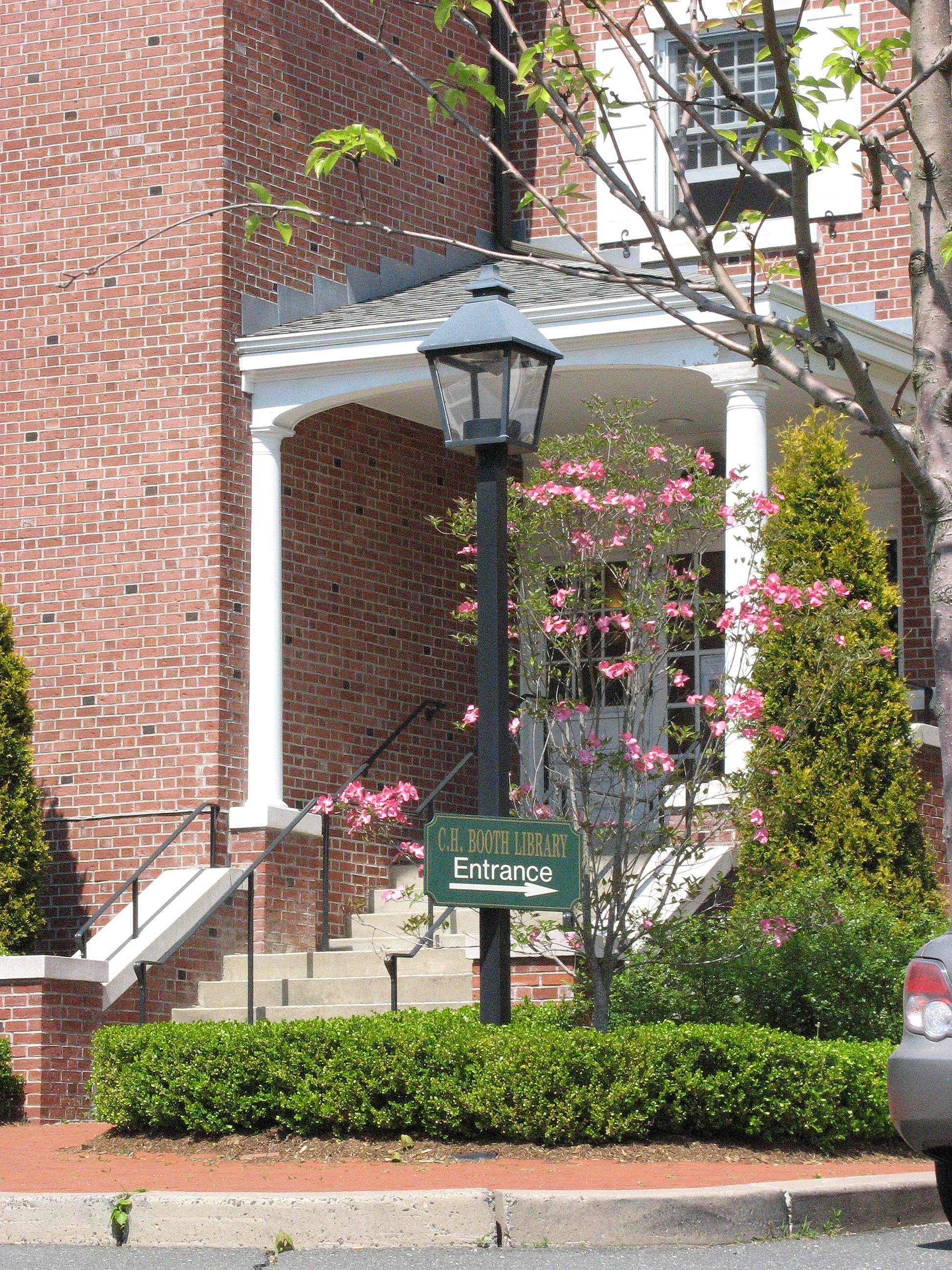 Back entrance to the Cyrenius H. Booth Library in Newtown, Connecticut